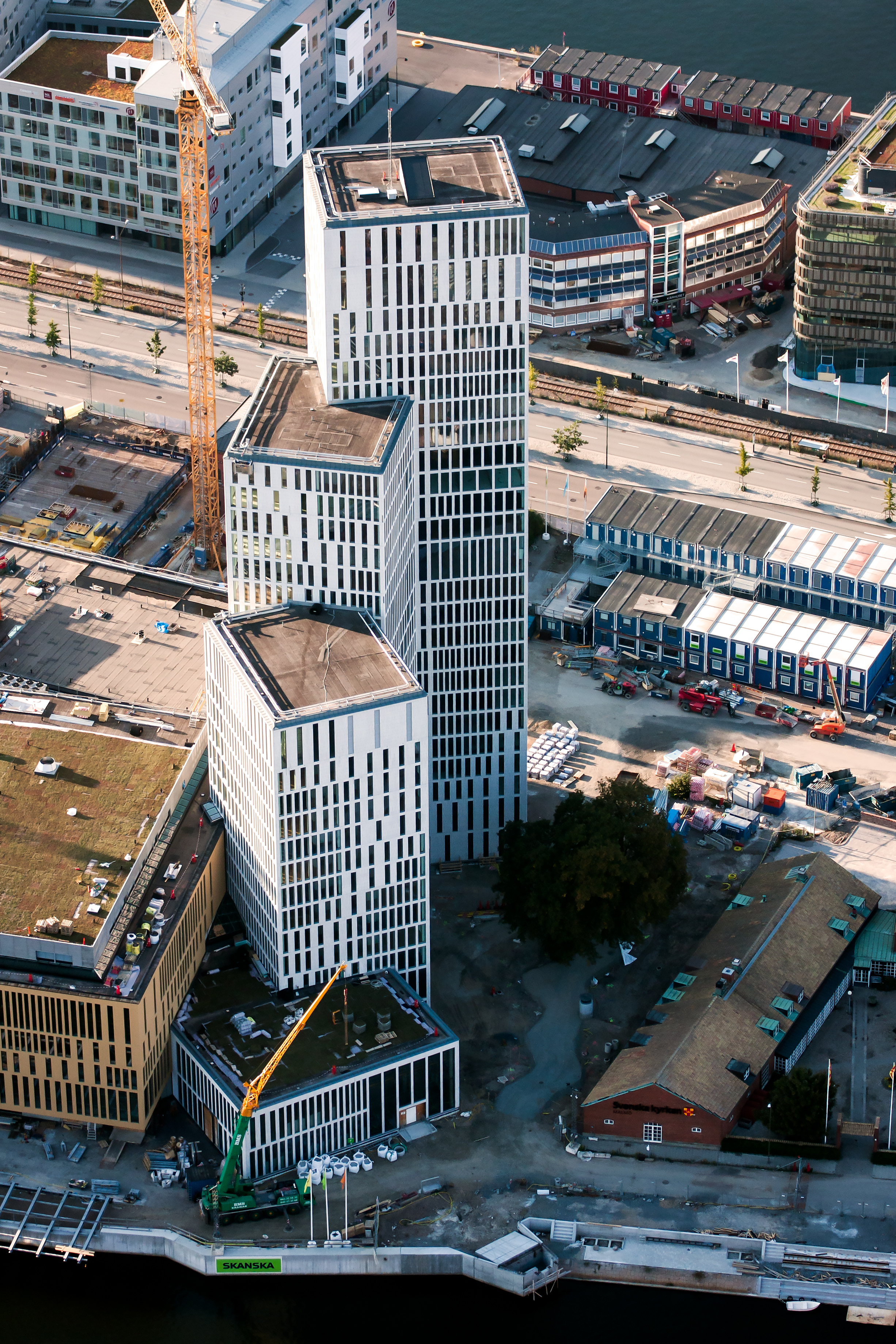 Skyscraper Malmö Live in Malmö, Sweden, under construction in September 2014.